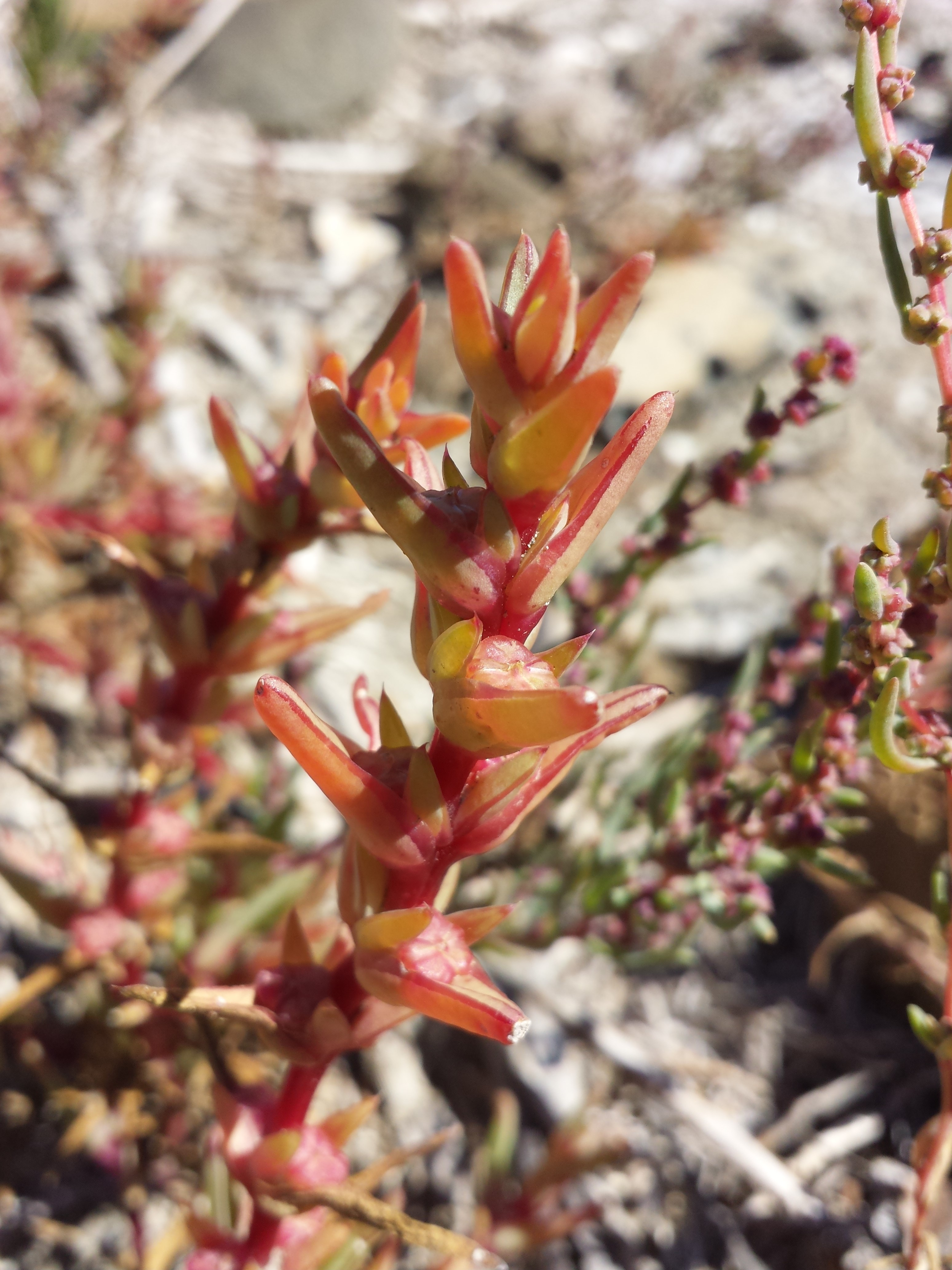 Infructescence Taxonym: Salsola soda ss Rottensteiner: Exkursionsflora für Istrien ISBN 978-3-85328-067-6 Location: abandoned salt basin next to Strunjan, community Piran, Istria, Slovenia Habitat: shore of an abandoned salt basin